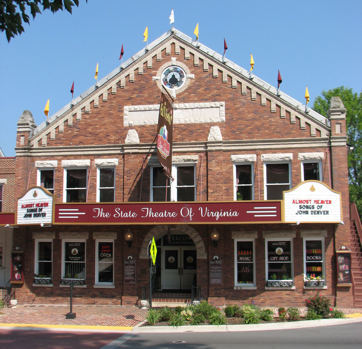 Photograph of the Barter Theatre in Abindgon, Virginia, taken by RebelAt| in August, 2006.